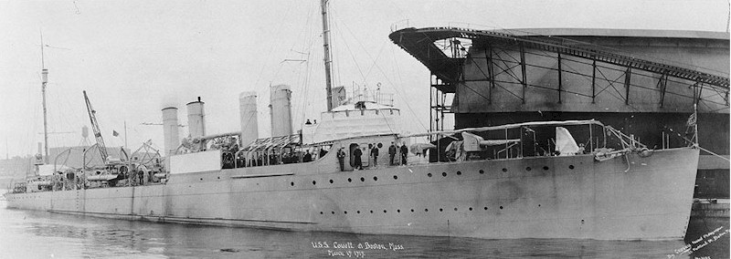 USS Cowell (DD-167) at the Boston Navy Yard, Massachusetts. Note the canvas screens rigged around the ship's open pilothouse and midships deckhouse.